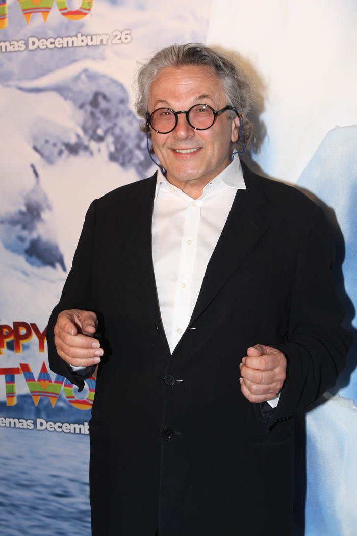 George Miller at the Australian Premiere of Happy Feet Two in Sydney (release date December 15, 2011)